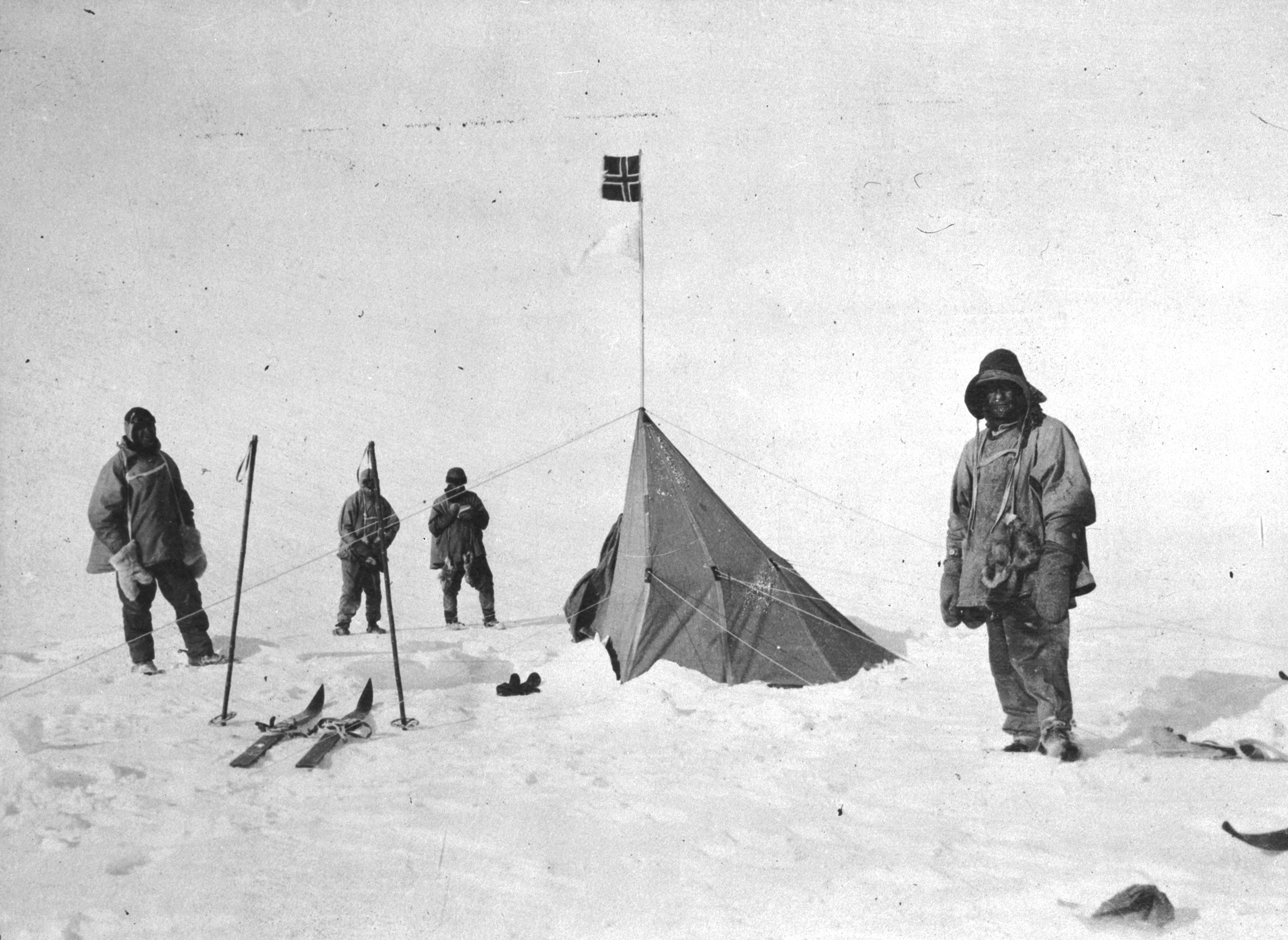 Scott and his men at the south pole. Left to right: Scott, Bowers, Wilson and P.O. Evans.